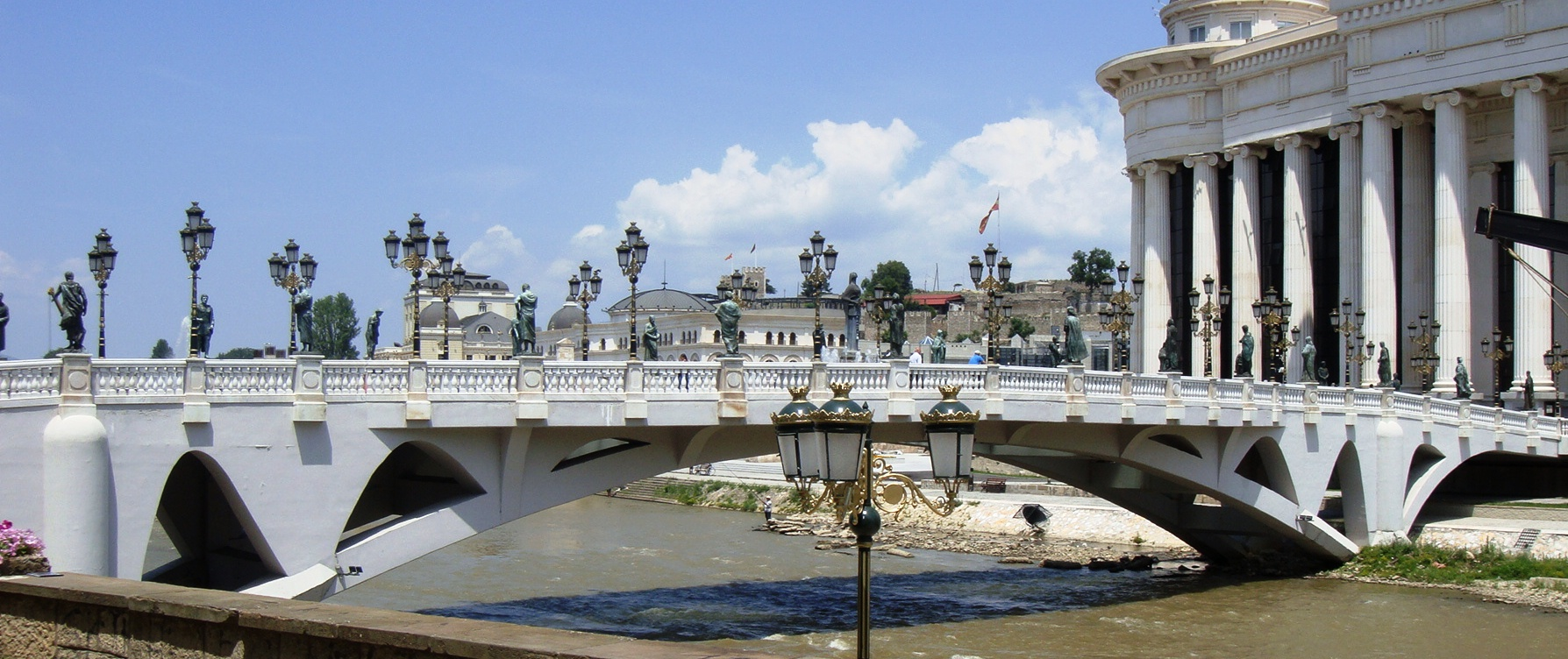 Eye Bridge in Skopje